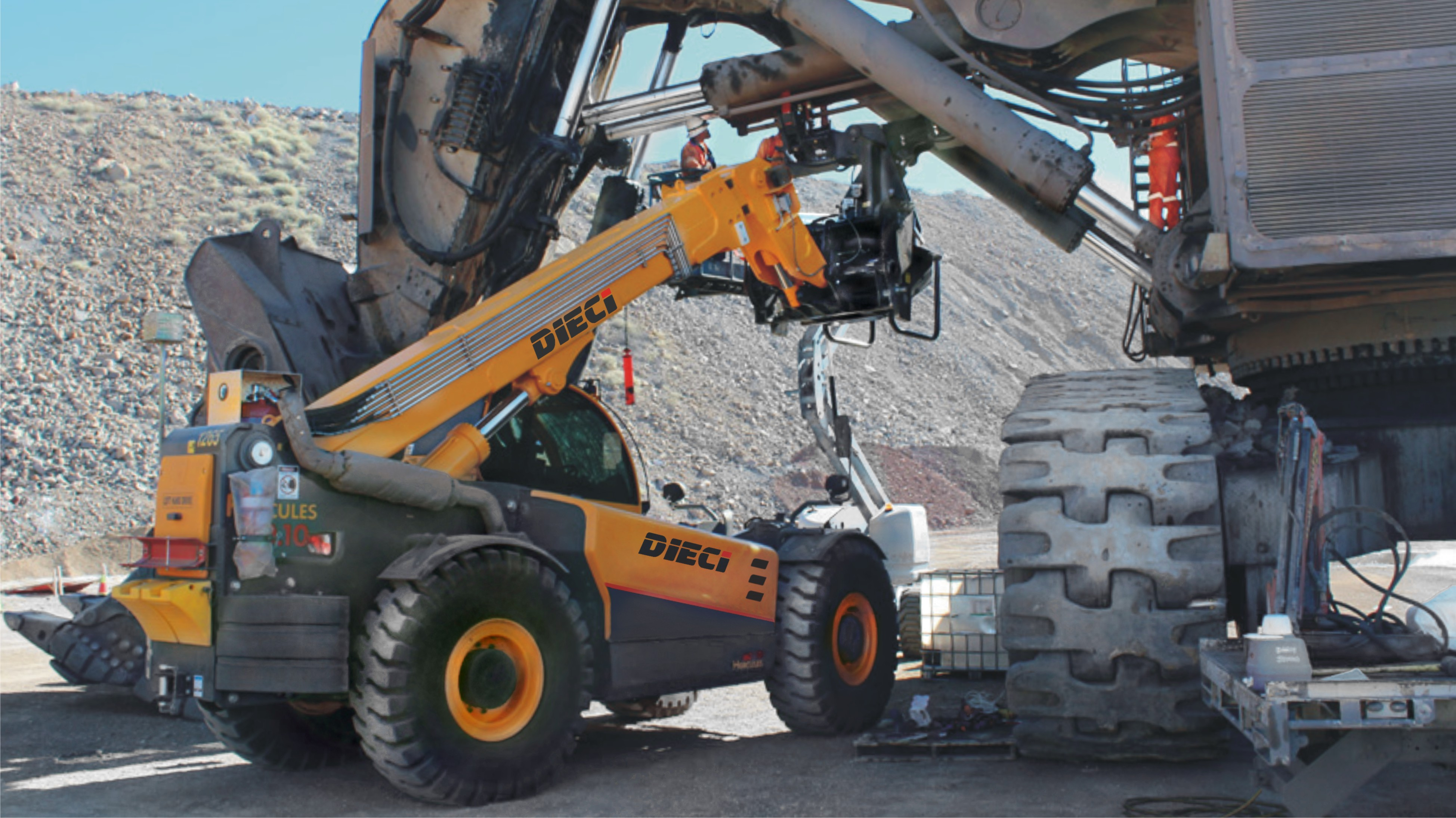 Dieci telehandler performing maintenance on a mine site with a cylinder handling attachment.